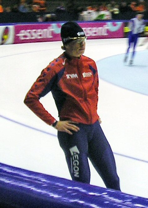 Sven Kramer (NED) at a World Cup in Thialf (Heerenveen, The Netherlands)